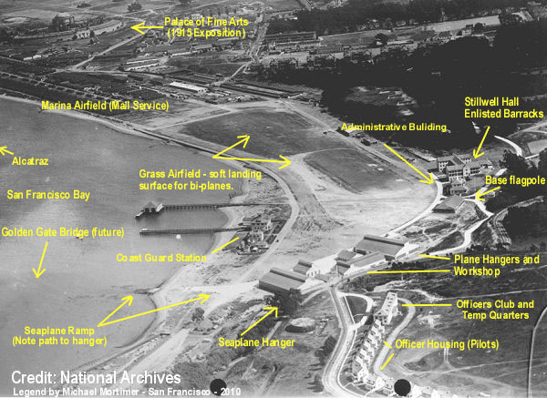 Aerial view of Crissy Airfield located on Presidio Army Base, with building legends assigned by Michael Mortimer - San Francisco history buff - 2010.